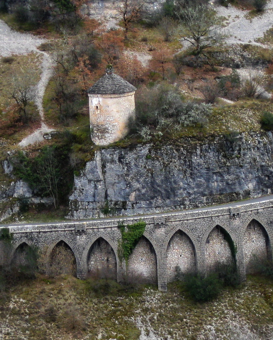 Laguille Dovecote on the opposite hillside of town Rocamadour in Lot department in France